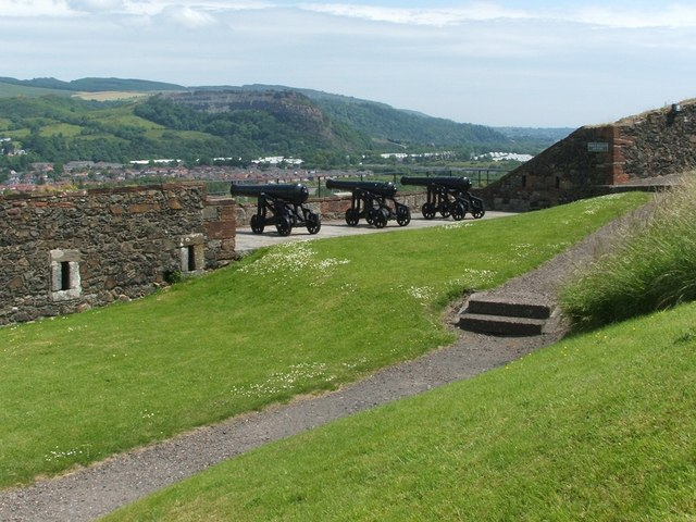 Dumbarton Rock: Prince of Wales Battery [This is one of a linked series of articles about Dumbarton Rock. See the end of 1380091 for a list of the reference works that are cited here in abbreviated form.] Like the Duke of Argyll's Battery (see the previous item in this series), this battery was built in about 1795; it stands on the site of the earlier Round Battery. The plaque on the right-hand side gives another name, "Prince Regent's Battery"; both names refer to the future George IV. [OSG07, p5; HD, p74]. The large dark pit of Dumbuck Quarry is visible in the background, a little left of centre. Previous: 1381365. Next: 1381466.